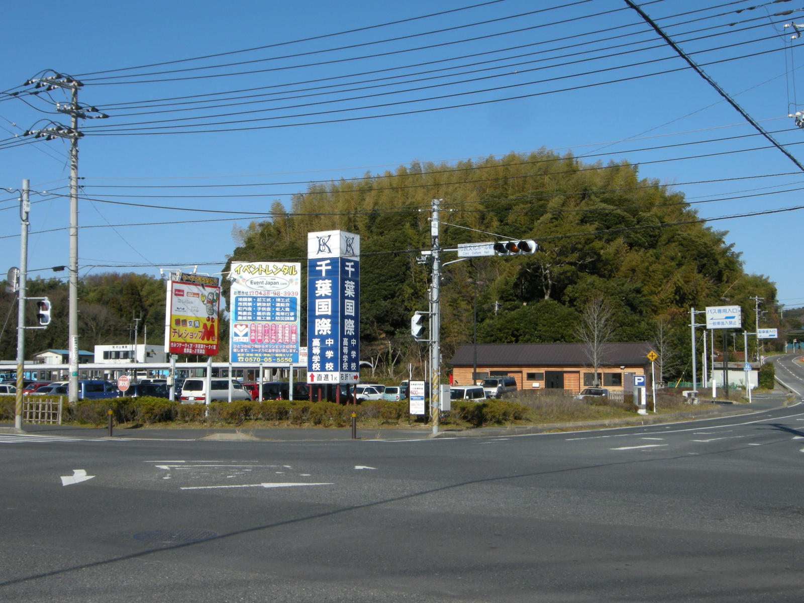 Overview of Kimitsu Bus Terminal in Chiba, Japan